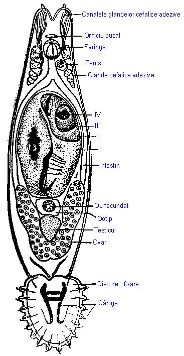 Gyrodactylus elegans